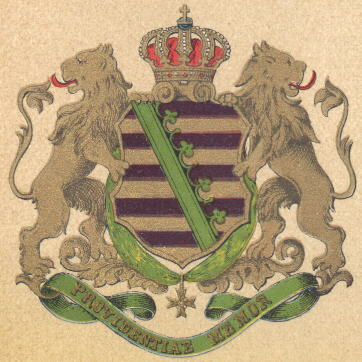 Small coat of arms of Saxony